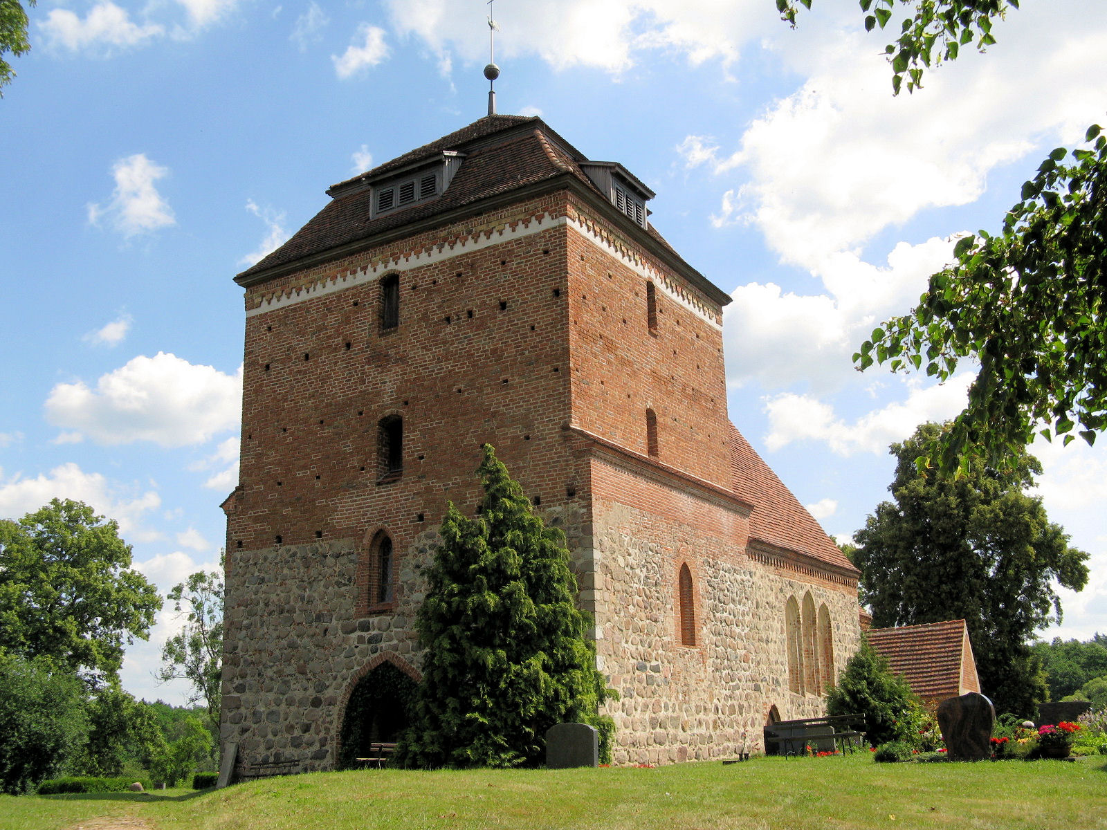 Church in Bellin, disctrict Güstrow, Mecklenburg-Vorpommern, Germany